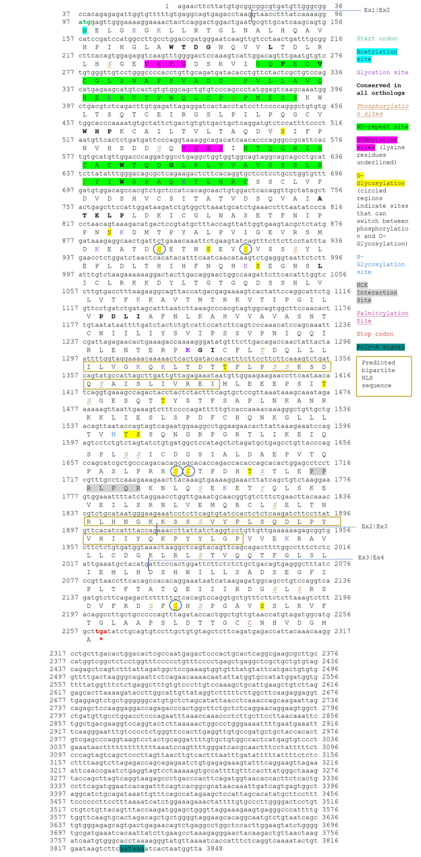 WDCP Conceptual Translation; Includes signaling sequences, post-translational modifications, and exon junctions